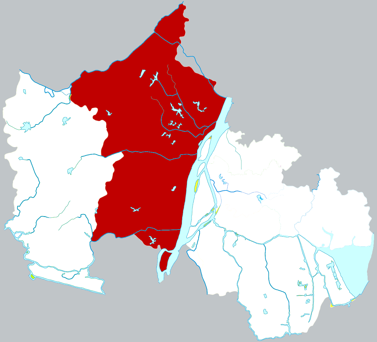 Location of He county in Ma'anshan city, China